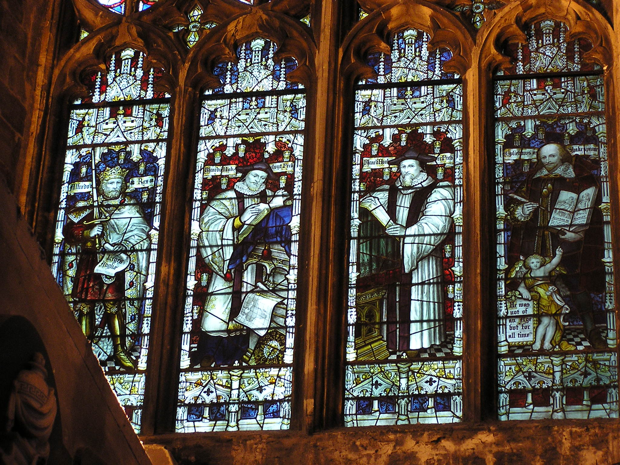 Stained glass window in the West Window of the South Transept of Bristol Cathedral featuring, from left, King Alfred the Great, the writer Richard Hakluyt, the priest and theologian Richard Hooker, and the playwright and poet William Shakespeare. The entry on the window in the Cathedral's inventory reads as follows: Inv. no.22; M.S. S12 Window, South Transept; West window; English; C.E. Kempe, c.1905. Stained and painted glass. 1a. ALFREDUS REX, holding scroll, 1b. RICARDUS HAKLUYT PREB, 1c. RICARD HOOKER PREB, 1d. GULIELMUS SHAKESPEARE. In the transom, Tudor roses and the sun in splendour. 2a. King David with harp and scroll: CANTATE..., 2b. EZRA SCRIBA DEI, 2c. S.LUCAS EVAN, 2d. S.PAULUS APOST. In the tracery, angel musicians. In memory of Alfred Ainger, canon 1887–1903.